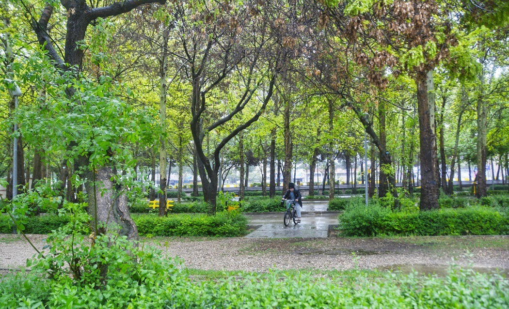 Rainy spring day of Bojnord - 14 April 2018. main album